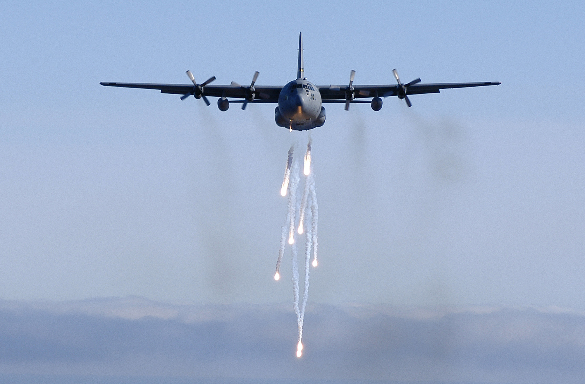 A Michigan Air National Guard C-130E Hercules aircraft from 171st Airlift Squadron dispatches it's flares during a low-level training mission over Lake Huron, Michigan, March 16, 2006.